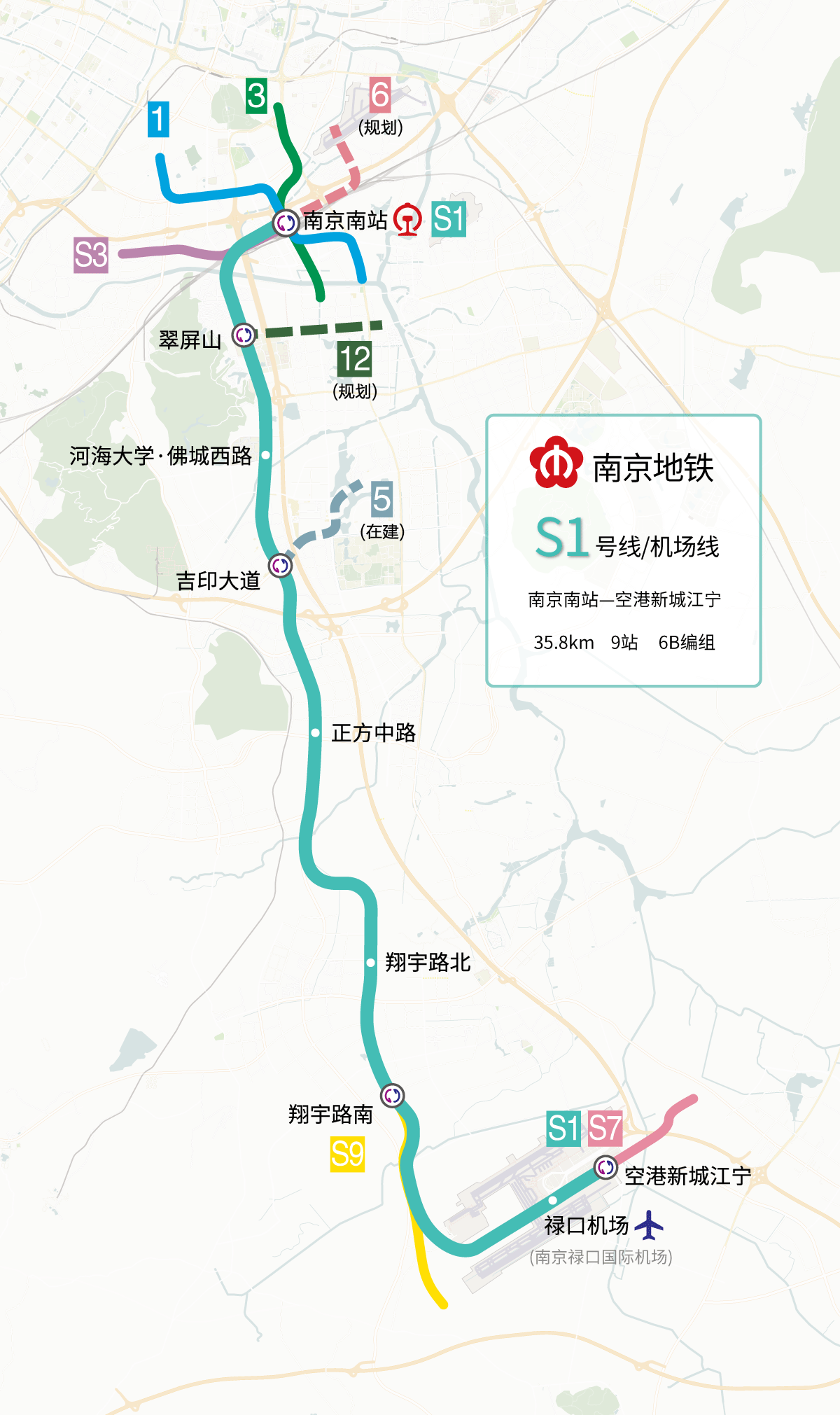 The map of Nanjing Metro Airport Line S1 (Chinese version)